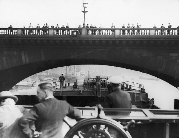 Reproduction ID: H1817 Maker: Unknown Date: 22 September 1926